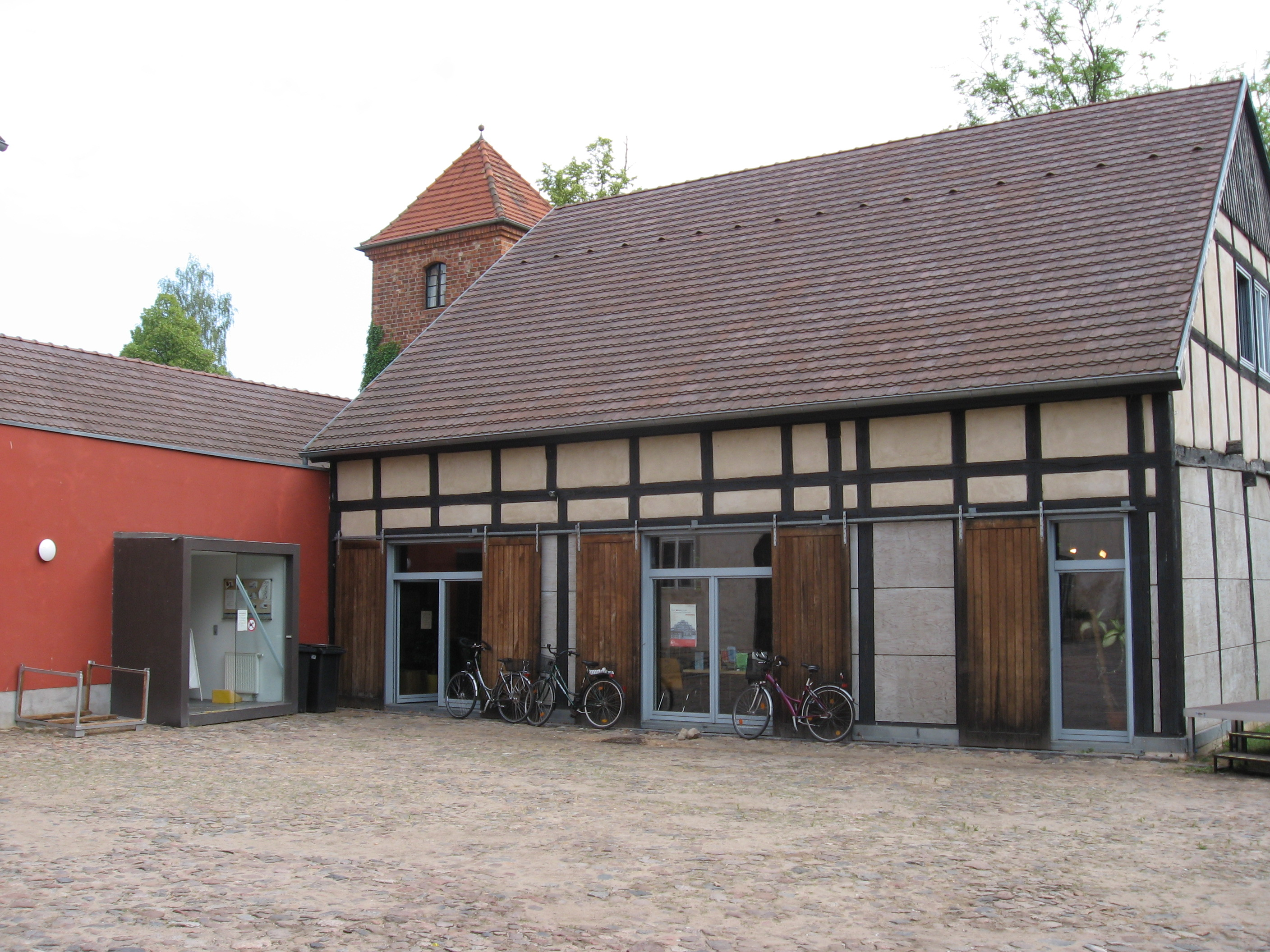 Public Library in Perleberg, Germany